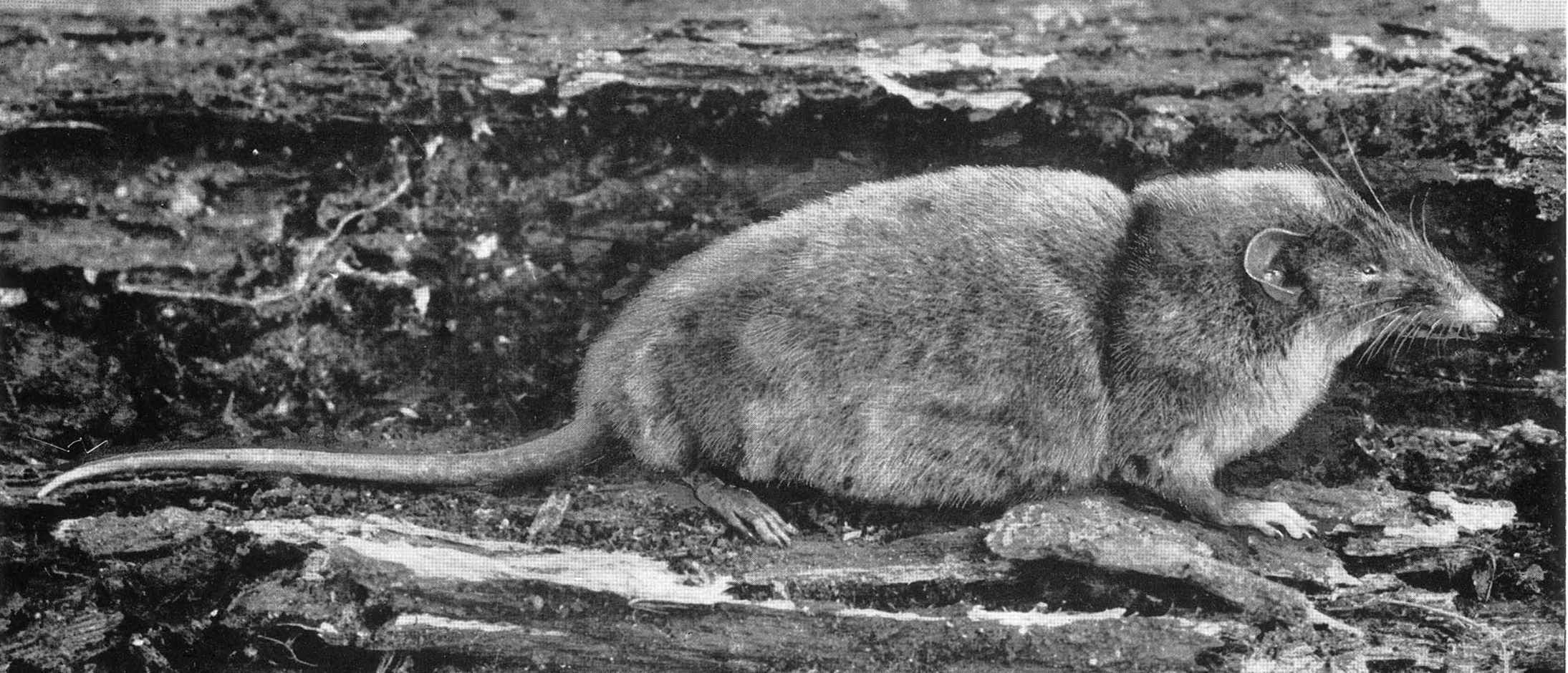 Black and white photograph of a Scutisorex somereni specimen of .